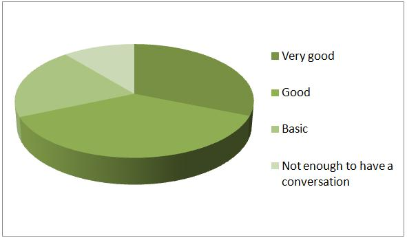 Knowedge of English in Sweden, 2005. According to the Eurobarometer: 89% of the respondents indicated that they know English well enough to have a conversation. Of these 35% ('per cent, not percentage points') had a very good knowledge of the language whereas 42% had a good knowledge and 23% basic English skills.